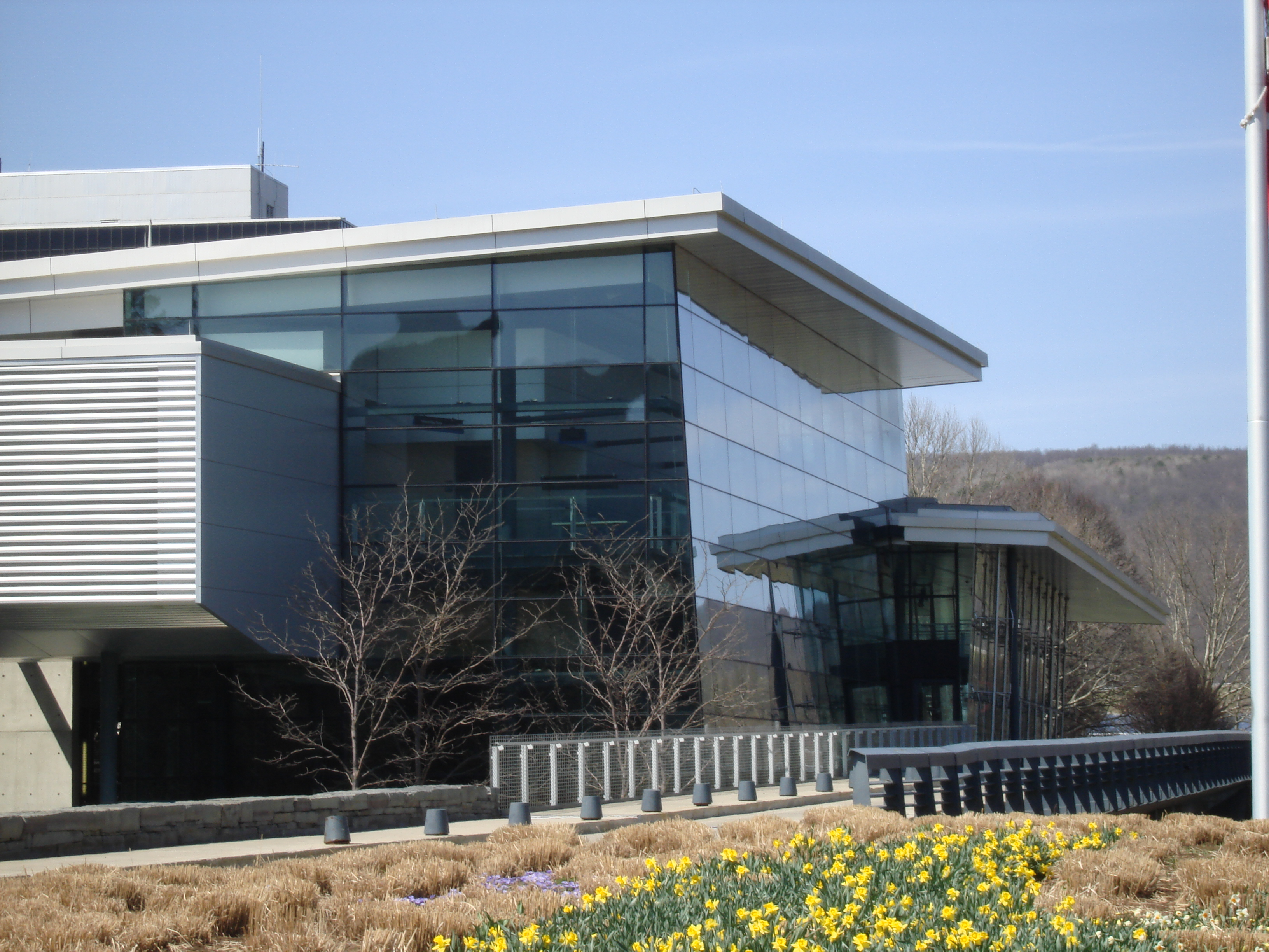 Corning Museum of Glass, in Corning, NY, Exterior.